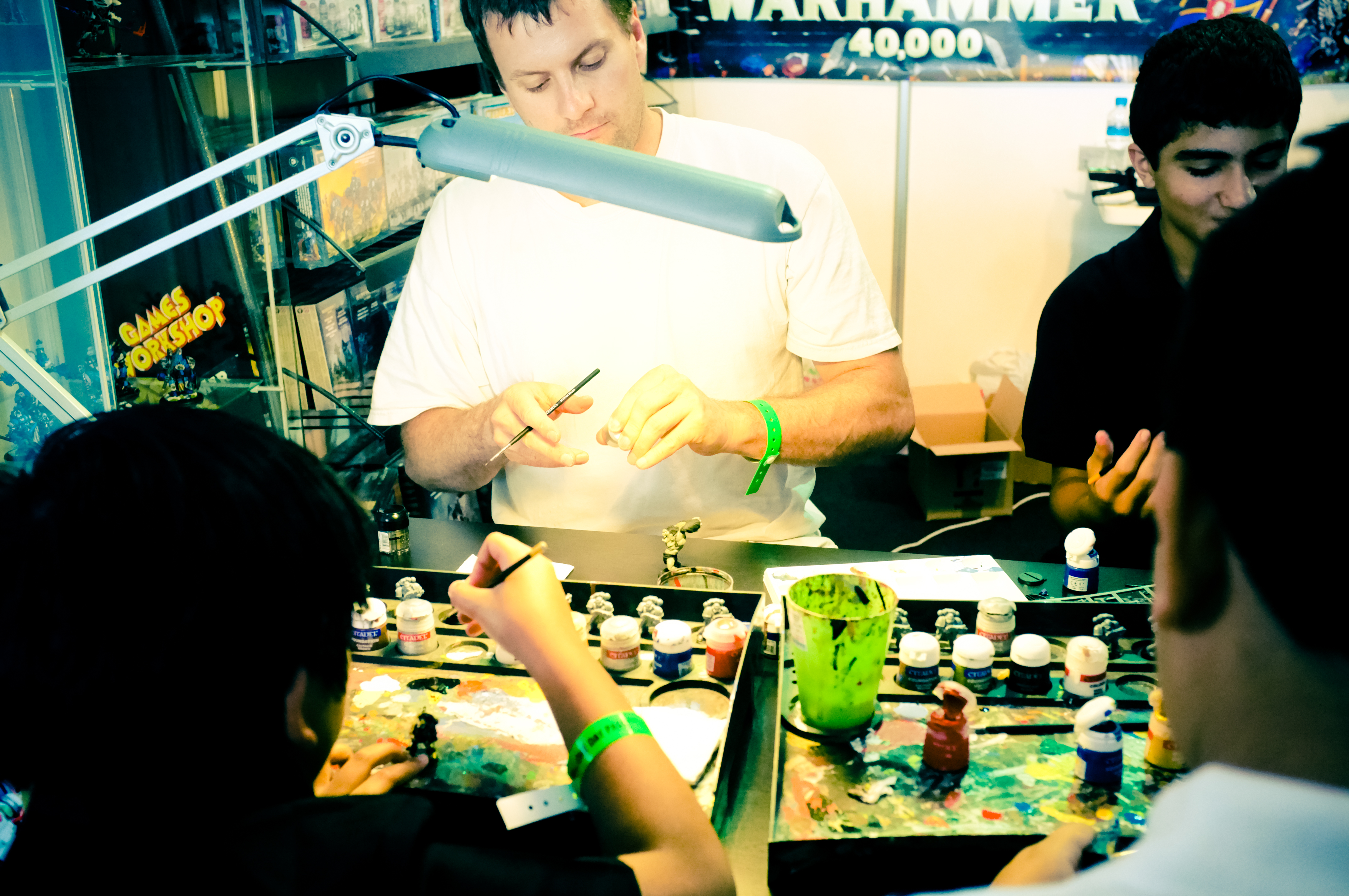 People painting Games Workshop miniatures at the Middle East Film and Comic Con 2012.